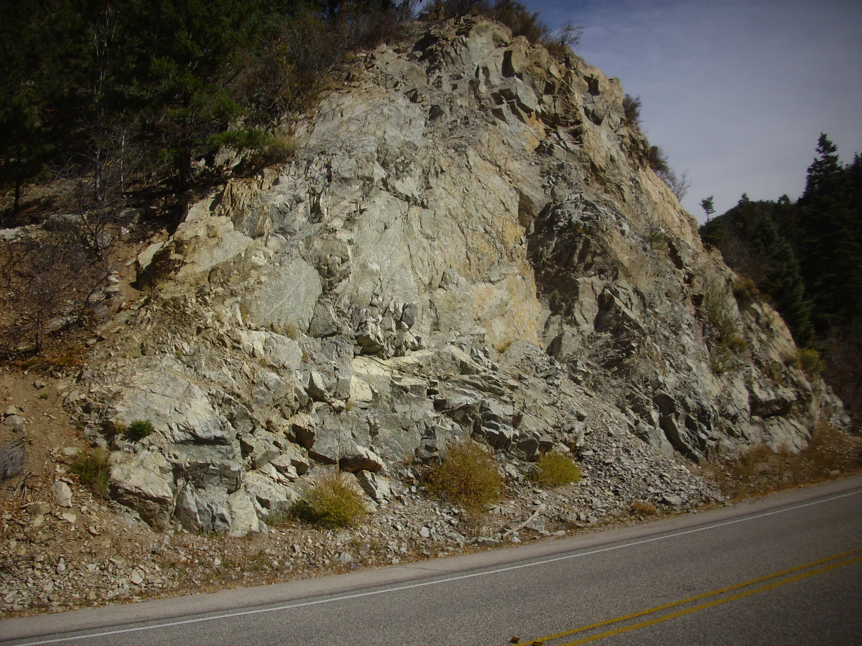 This image shows an outcrop of Paleoproterozoic (Statherian) quartz monzonite just outside the ring fracture of the Questa caldera, in the Red River Canyon east of Questa, New Mexico, USA.